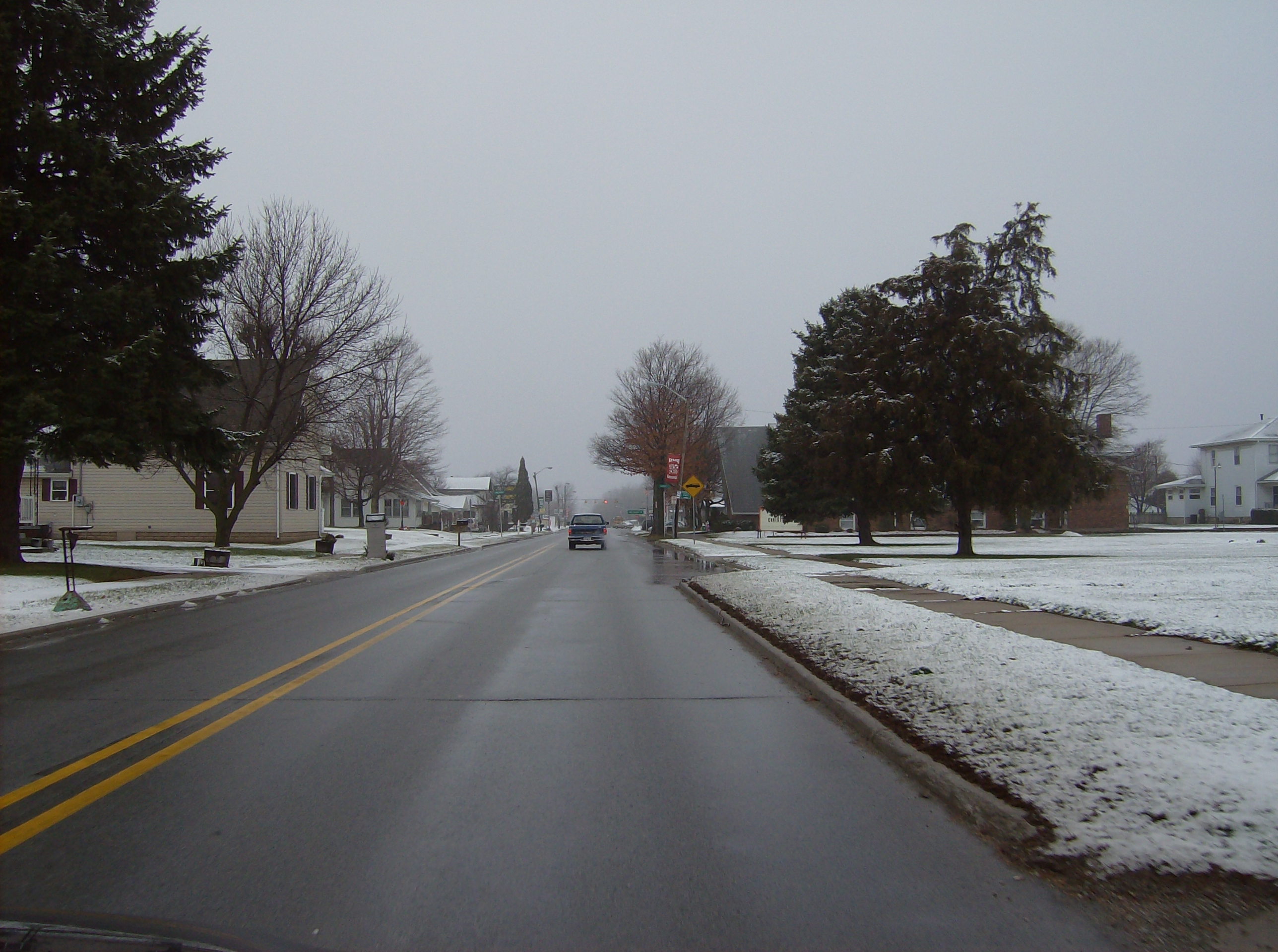 Along westbound Main Street (State Road 26) in central Russiaville, a town in southwestern Howard County, Indiana, United States.